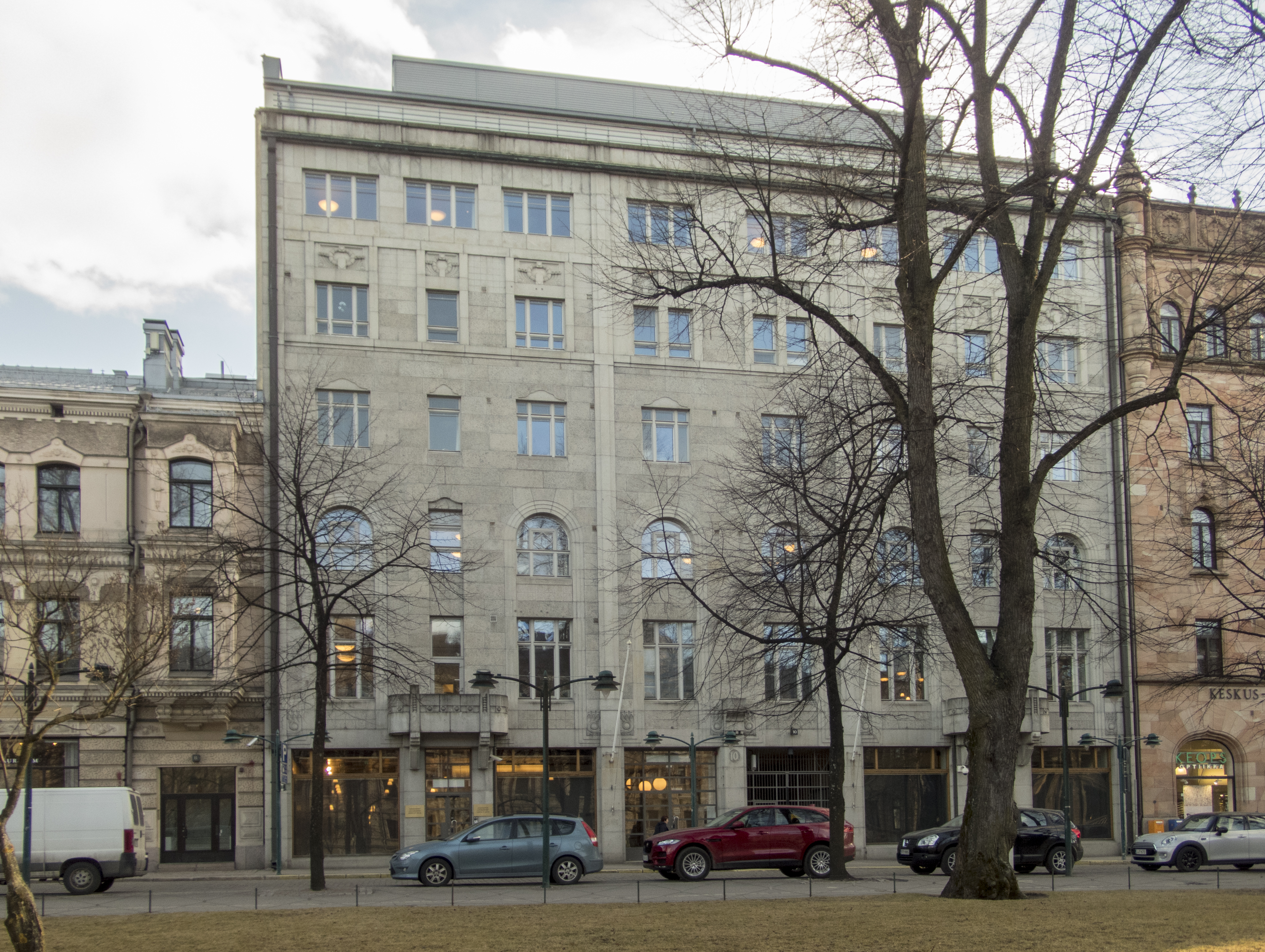 Eteläesplanadi 10, Helsinki. Architect Onni Tarjanne. Built in 1909 as Hotel Apollo. Later one floor was added.